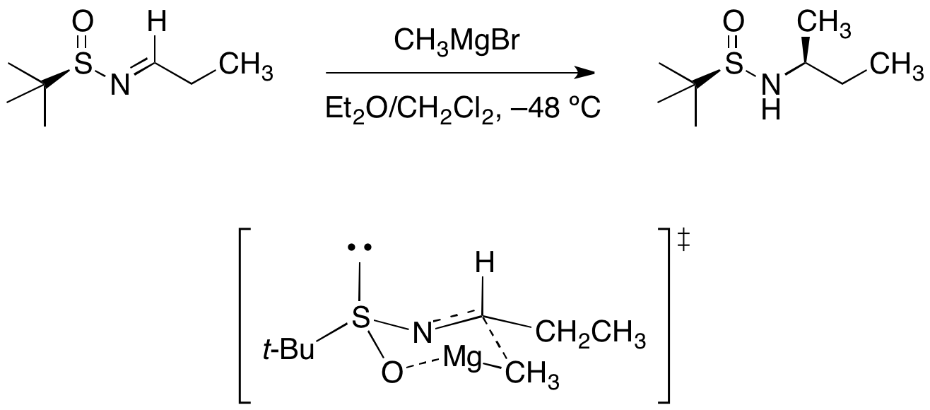 Chemdraw